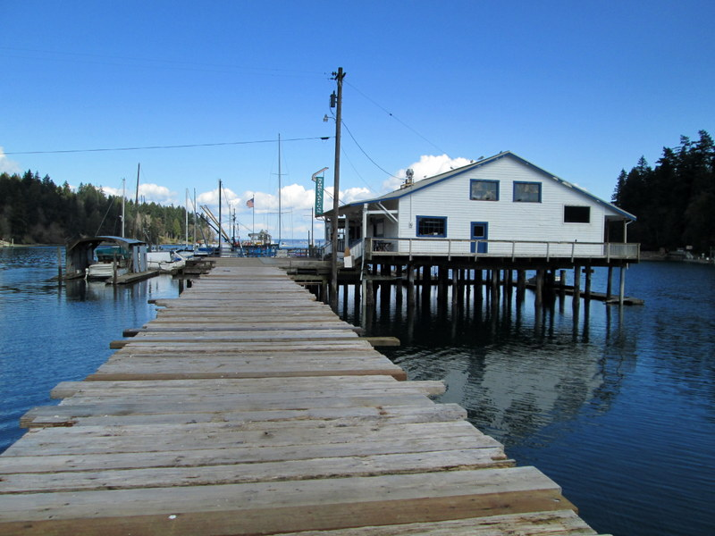 Lakebay Marina near Penrose Point State Park, Kitsap Peninsula, Washington State